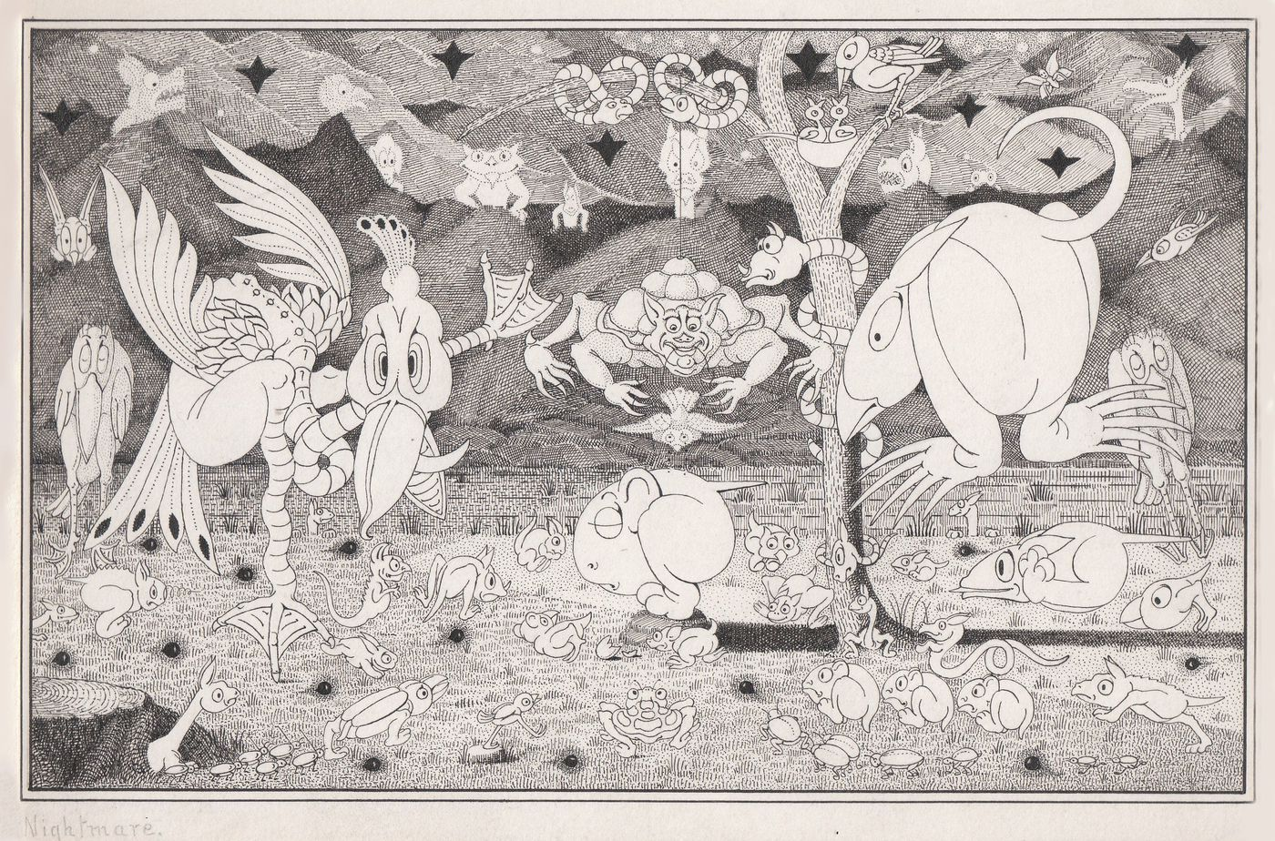 Drawing by Herbert Crowley entitled Nightmare